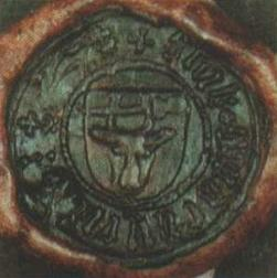 Stanislaw Sak's seal with Pomian coat of arms, 1422